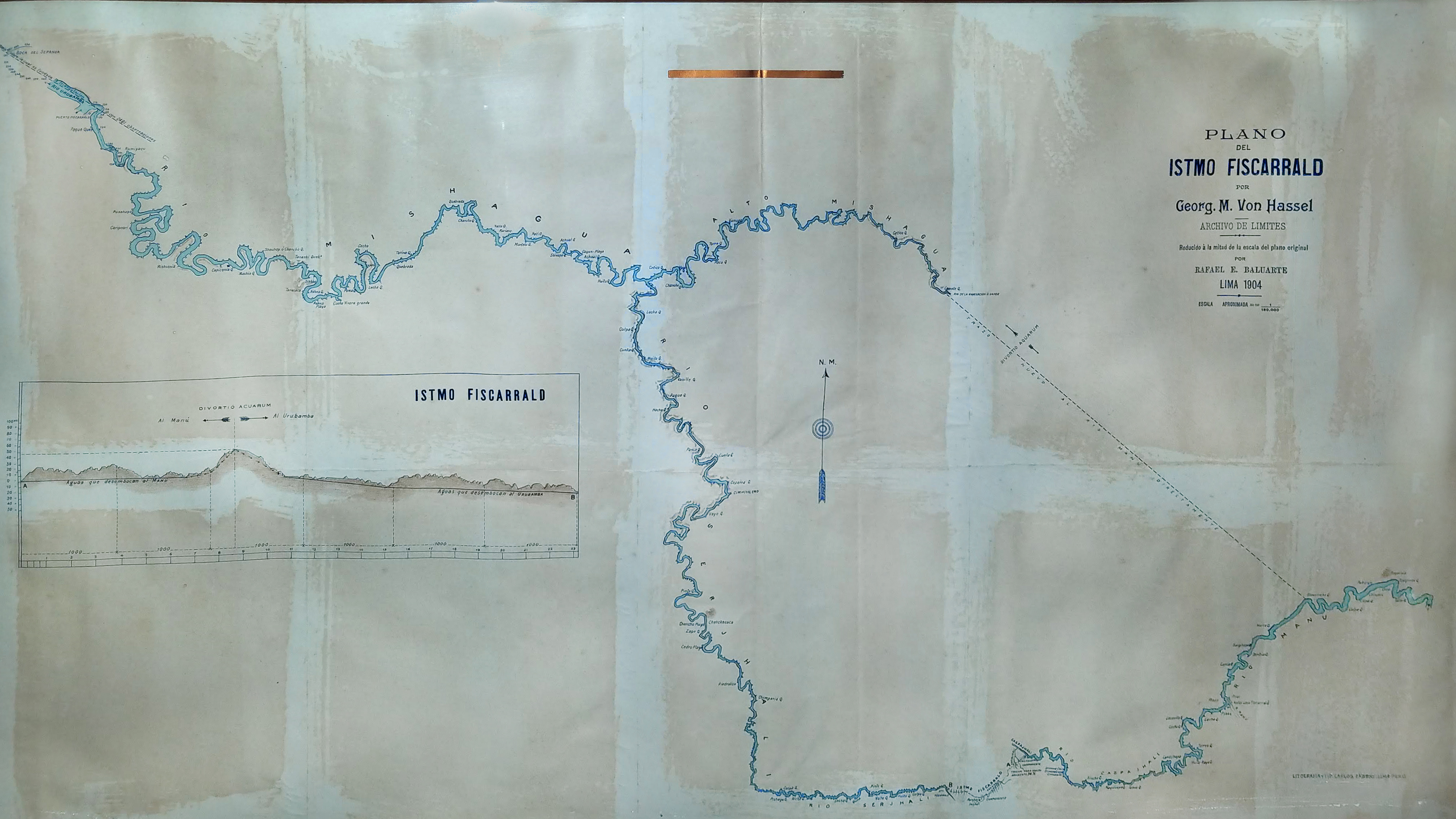 The Fitzcarrald Ishtmus (Istmo Fitzcarral a.k.a. Istmo Fitz-Carrall) as mapped in 1904 by Rafael E. Baluarte. The Ishtmus, discovered by Carlos Fermin Fitzcarrald, is a land bridge that is the shortest connection between the Serhali river (a tributary of the Urubamba and Amazon rivers) as well as the Caspajhali river, a tributary of the Madre de Dios river. The significance of this land bridge is that it connected Iquitos and Puerto Maldonado (and in extension, Bolivia) for the rubber trade in the early 20th century, a significant discovery for the rubber trade.